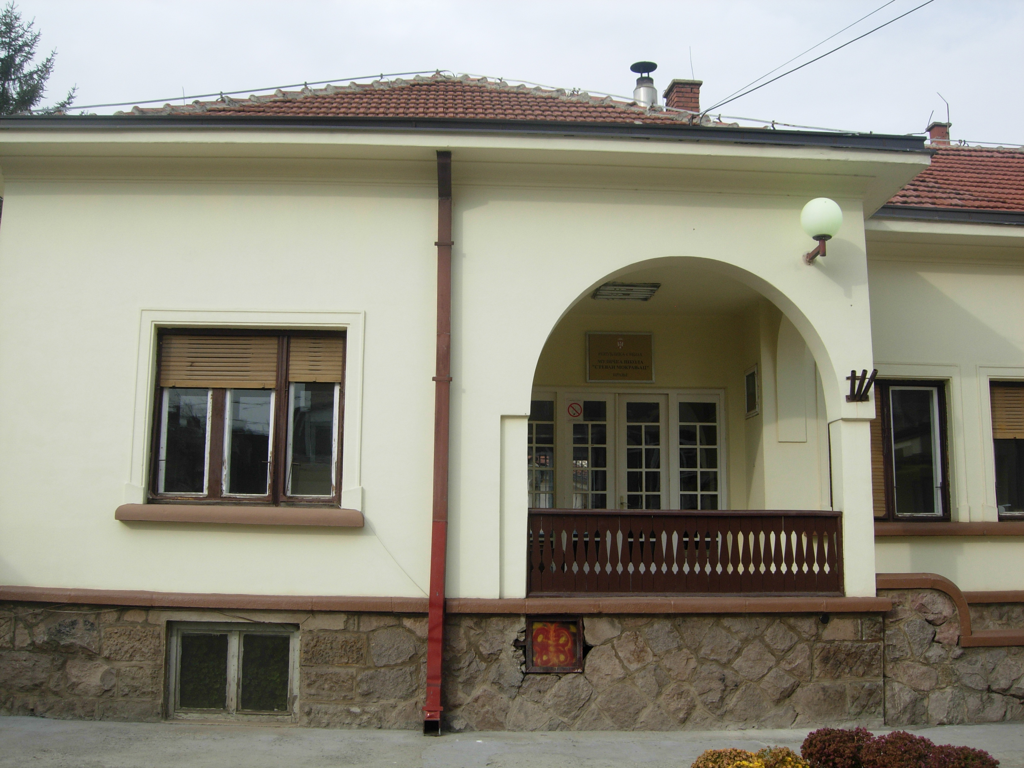 Glavna zgrada Muzicke skole